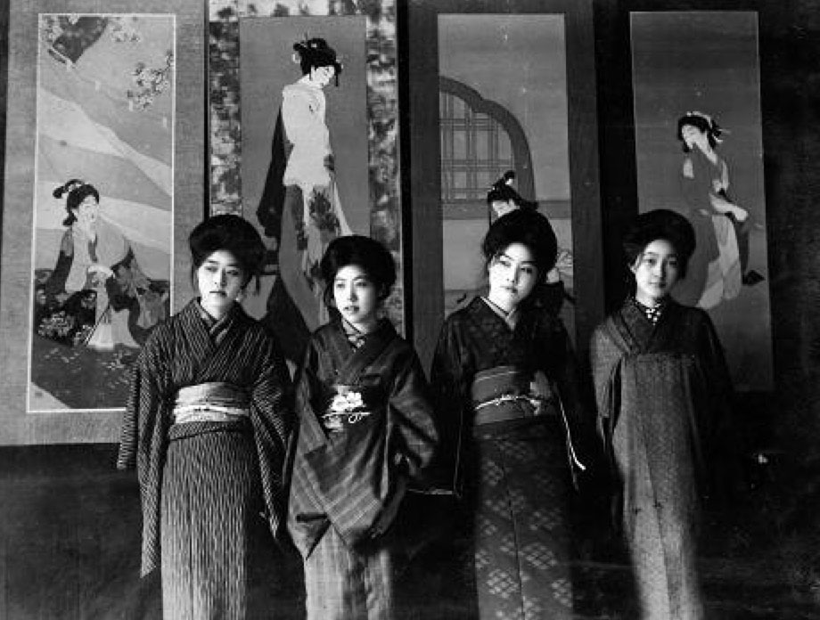 Okamoto Koen, Kitani Chigusa, Shima Seien, Matsumoto Kayo, photographed in May 1916